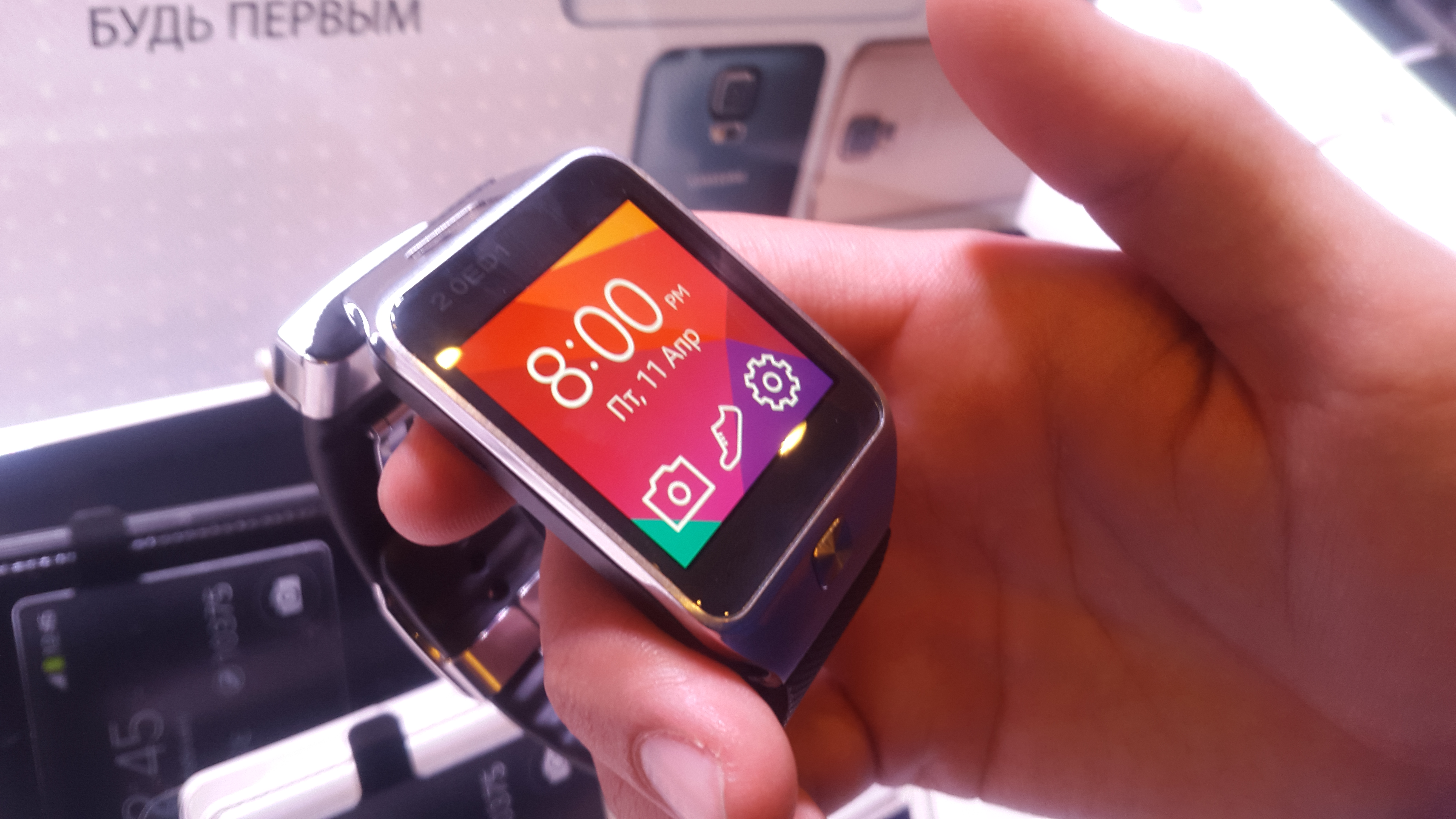 Samsung Gear 2 smartwatch at presentation in Kyrgyzstan